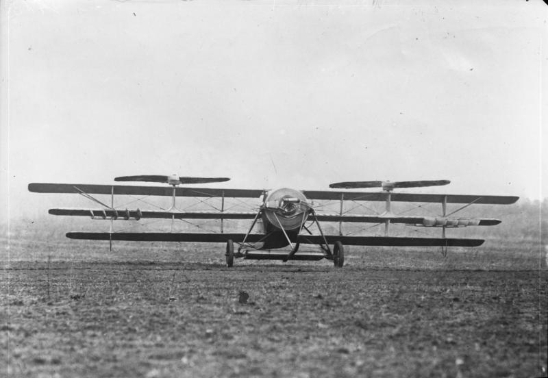 one of Henry Berliner's experimental helicopter designs